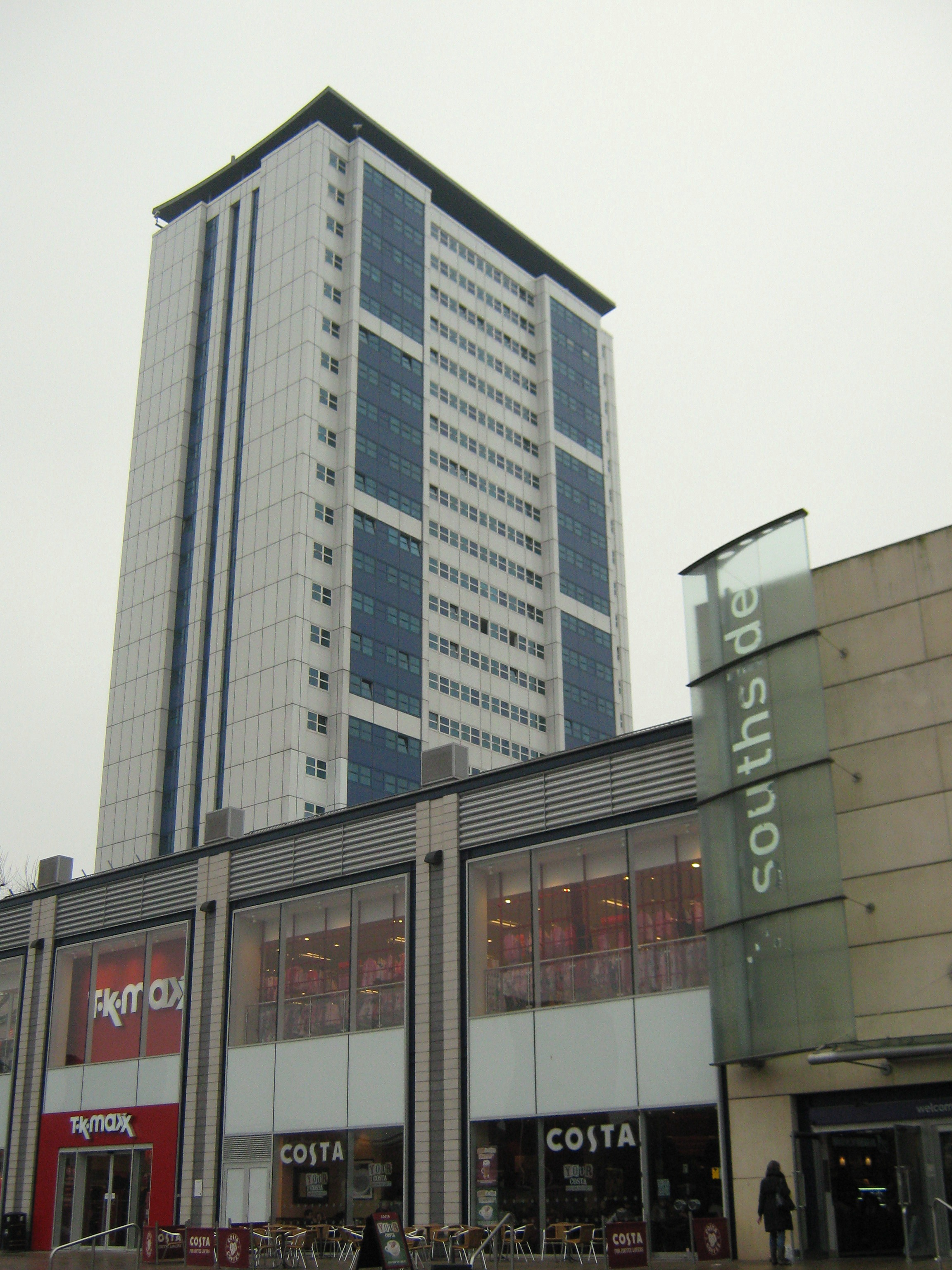 Northern frontage of Wandsworth Shopping Centre, facing York Road, illustrating the unusual placing of tower blocks on the roof of the centre